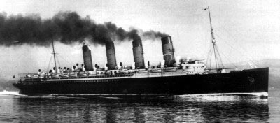 RMS Mauretania